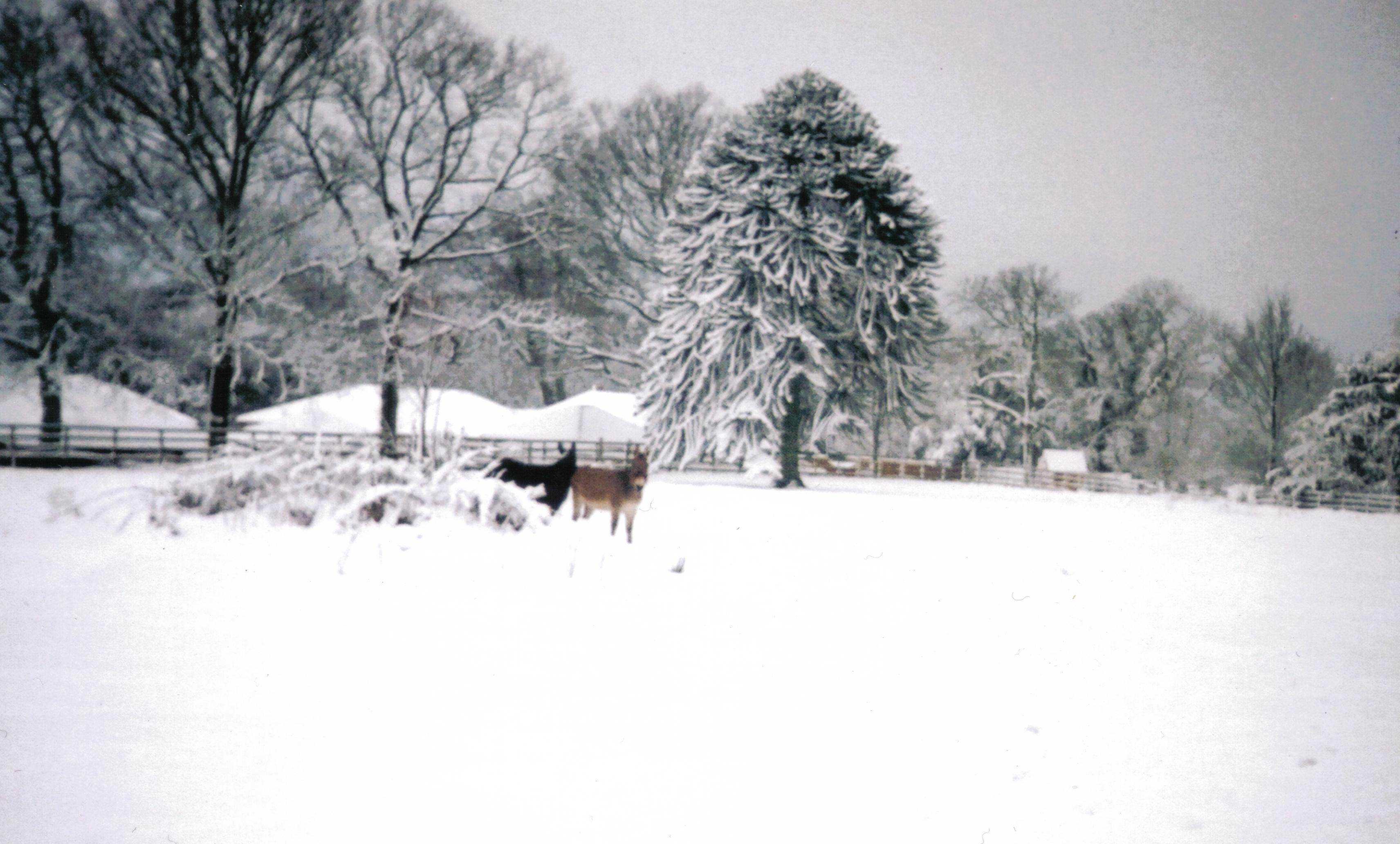 Thorntoun estate, Crosshouse, Kilmarnock. East Ayrshire, Scotland. March 12 2006.